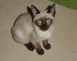 Scott Turner, self-taken picture